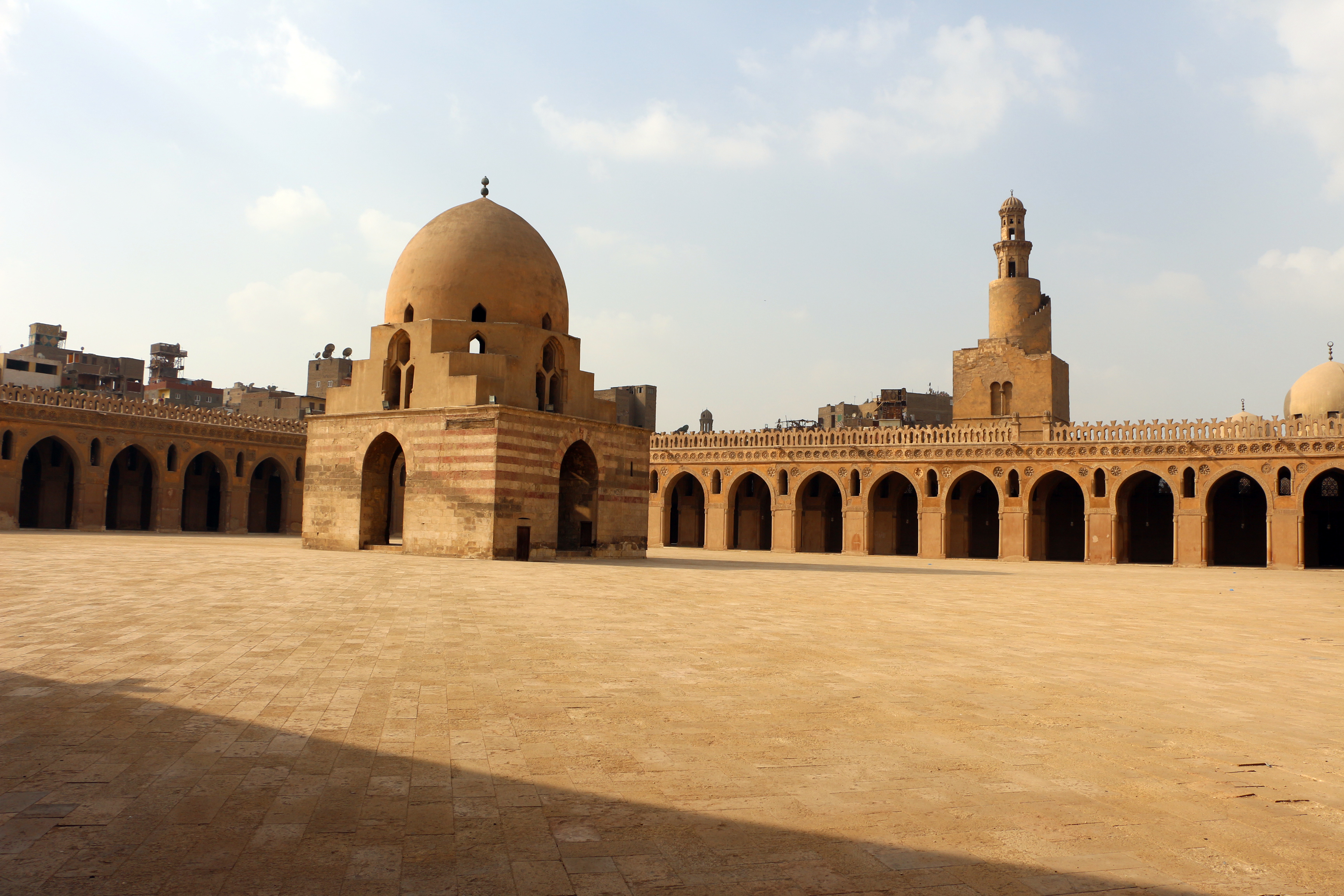 Mosque of Ibn Tulun